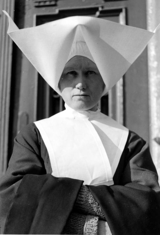 Prisoners of Montelupich Prison in Kraków in 1939